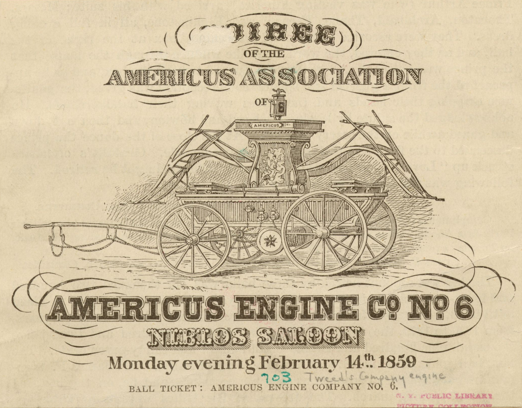 Americus Encing Company Number 6 Soiree ticket Image Title: Soiree of the Americus Association. Americus Engine Company No. 6, Niblos Saloon, Monday evening *February 14, 1859. Creator: Oram, Louis -- Artist Published Date: 1887 Depicted Date: 1859 Specific Material Type: Prints Item Physical Description: 1 print : b&w ; 11 x 14 cm. (4 1/2 x 5 1/4 in.) Notes: Printed on border: "[So]iree of the Americus Association of Americus Engine Co. No. 6, Niblos Saloon, Monday evening February 14th, 1859." Written on border: "Tweed's Company engine." Original Source: From Our firemen : a history of New York Fire Department. (New York : A. Costello, 1887) Costello, Augustine E., Author. Source: Mid-Manhattan Picture Collection / New York City -- fire department -- 1899 & earlier Source Description: 3 folders (115 pictures) Location: Mid-Manhattan Library / Picture Collection Catalog Call Number: PC NEW YC-Fir-18 Digital ID: 804725 Record ID: 690972 Digital Item Published: 10-28-2005; updated 8-10-2010